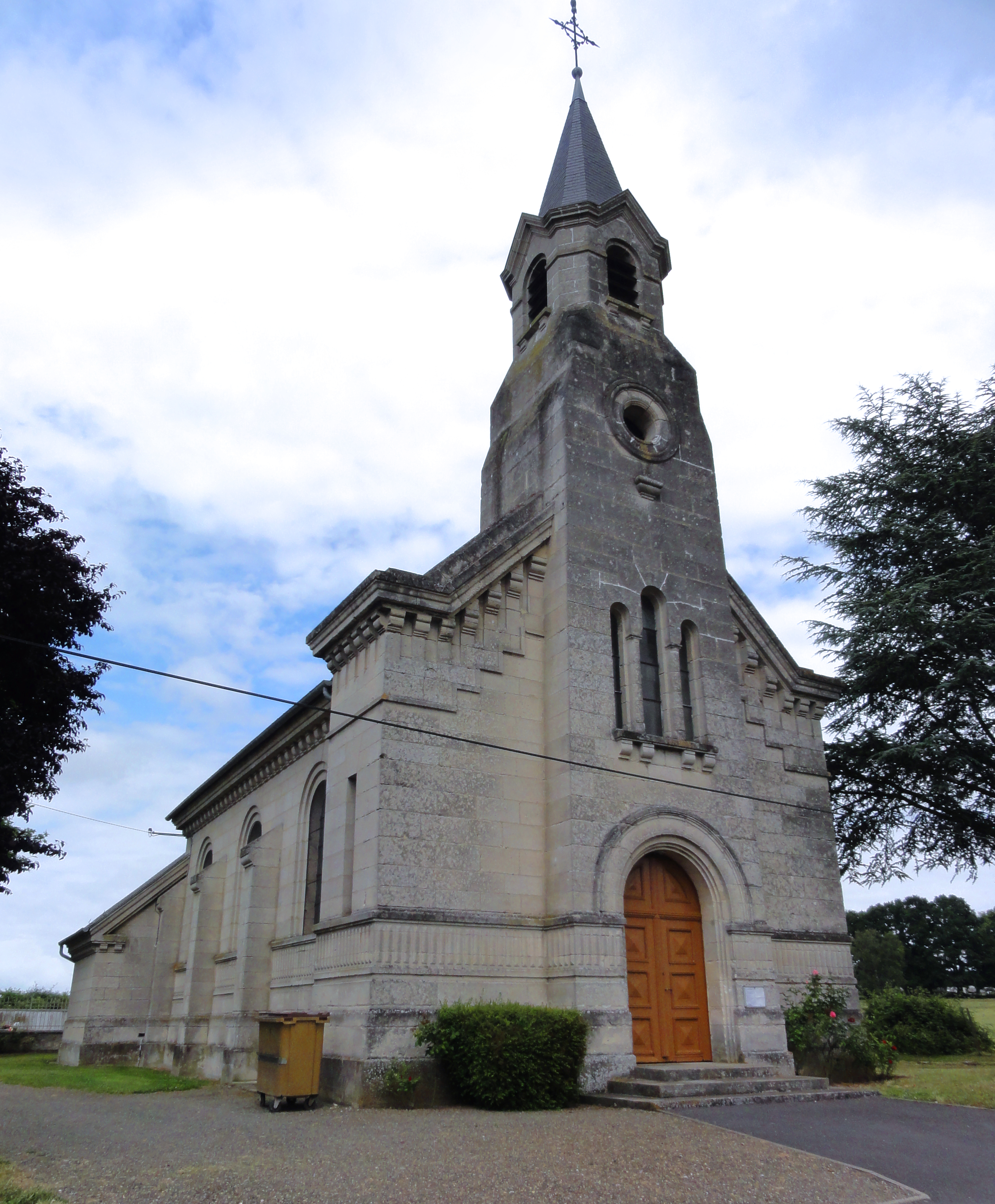 Bourguignon-sous-Coucy (Aisne) église